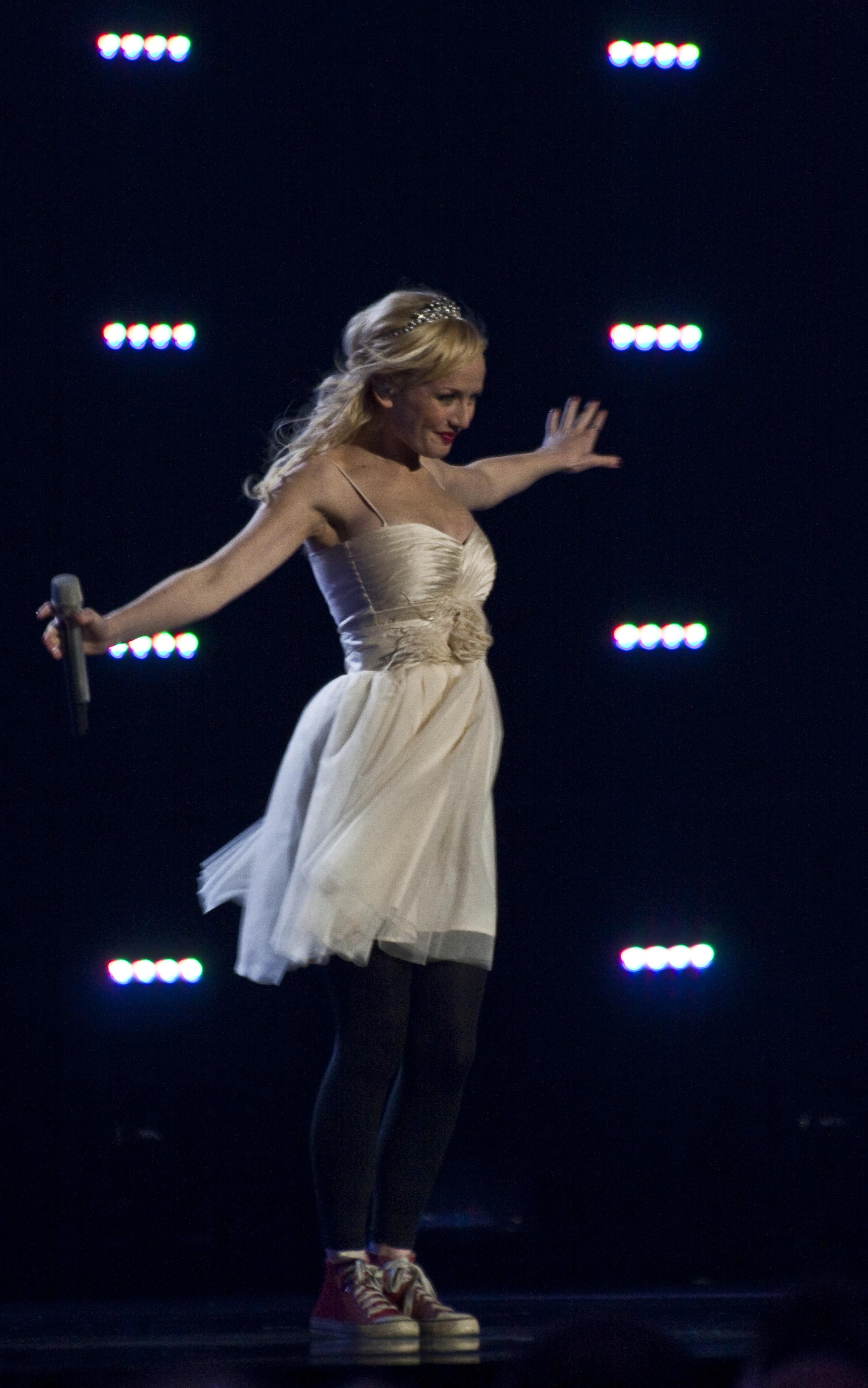 Anna Bergendahl, representing Swenden in Eurovision Song Contest 2010, 2nd rehearsal, Telenor Arena. Norway.